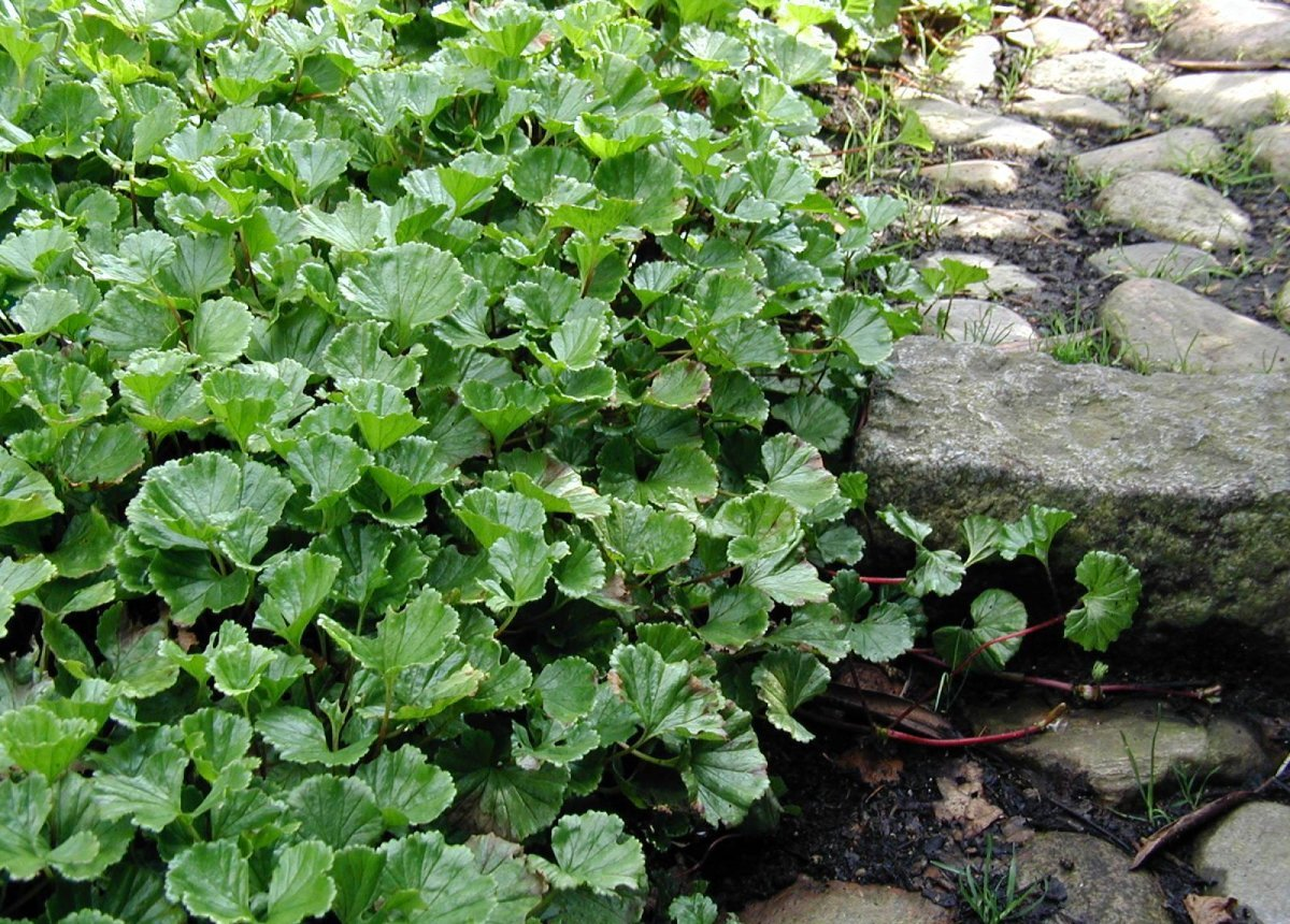 Gunnera magellanica: Habit growing in the Botanical Gardens of Aarhus, Denmark. Photo: Sten Porse